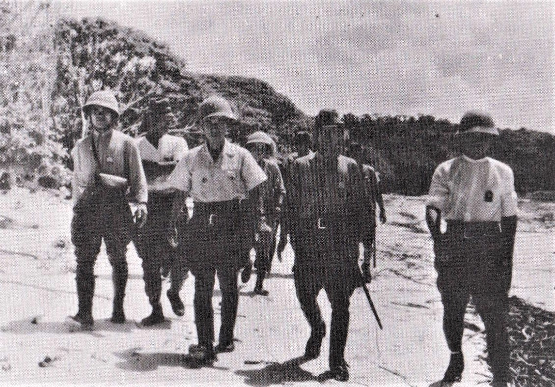 Imperial Japanese Army 15nd regiment in Peleliu